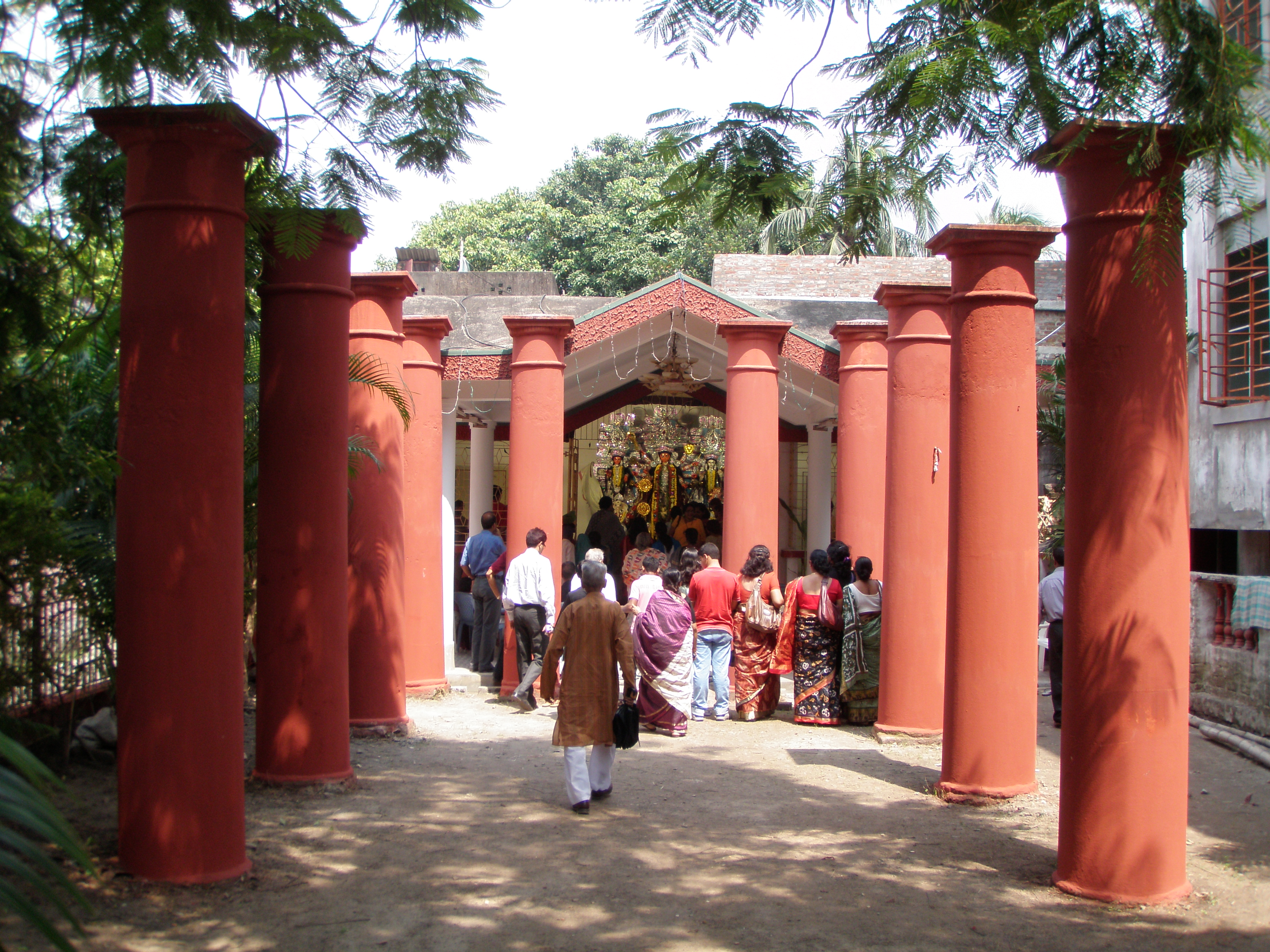 The oldest Durga temple in Kolkata of the Sabarna Roy Choudhury family. Built in 1610 by Laksmikanta Gangopadhyay.